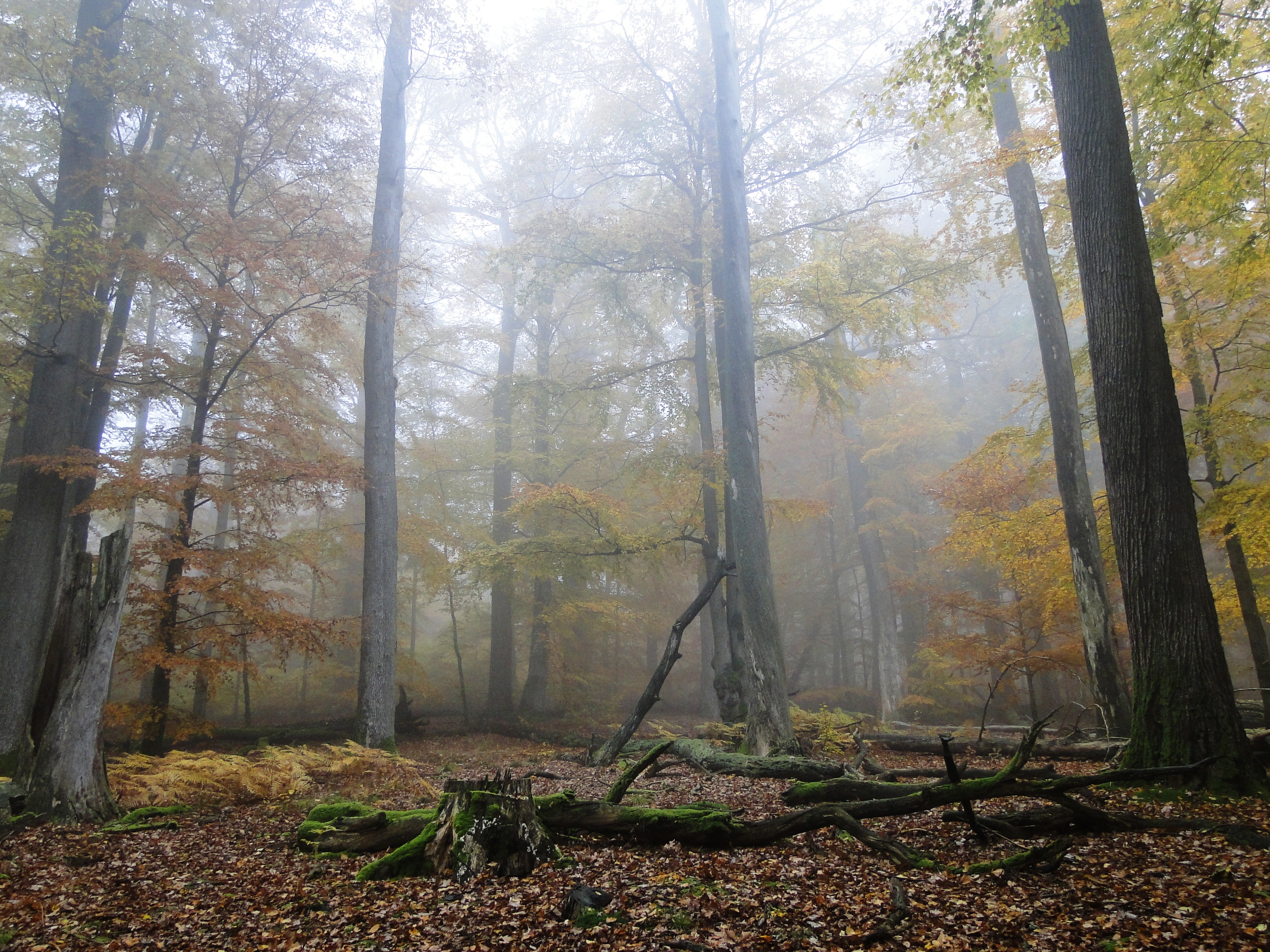 fog in the Rohrberg nature reserve, site of some of the most ancient oaks and beeches in the Spessart, Hochspessart near Rohrbrunn, Lower Franconia, Bavaria, Germany